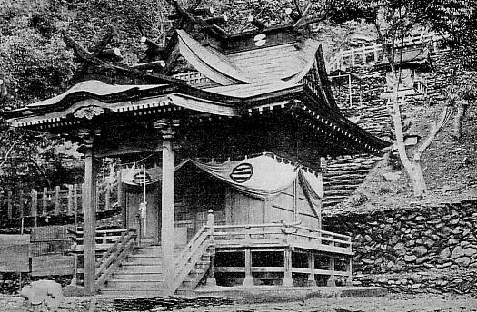 Sakuma Shrine